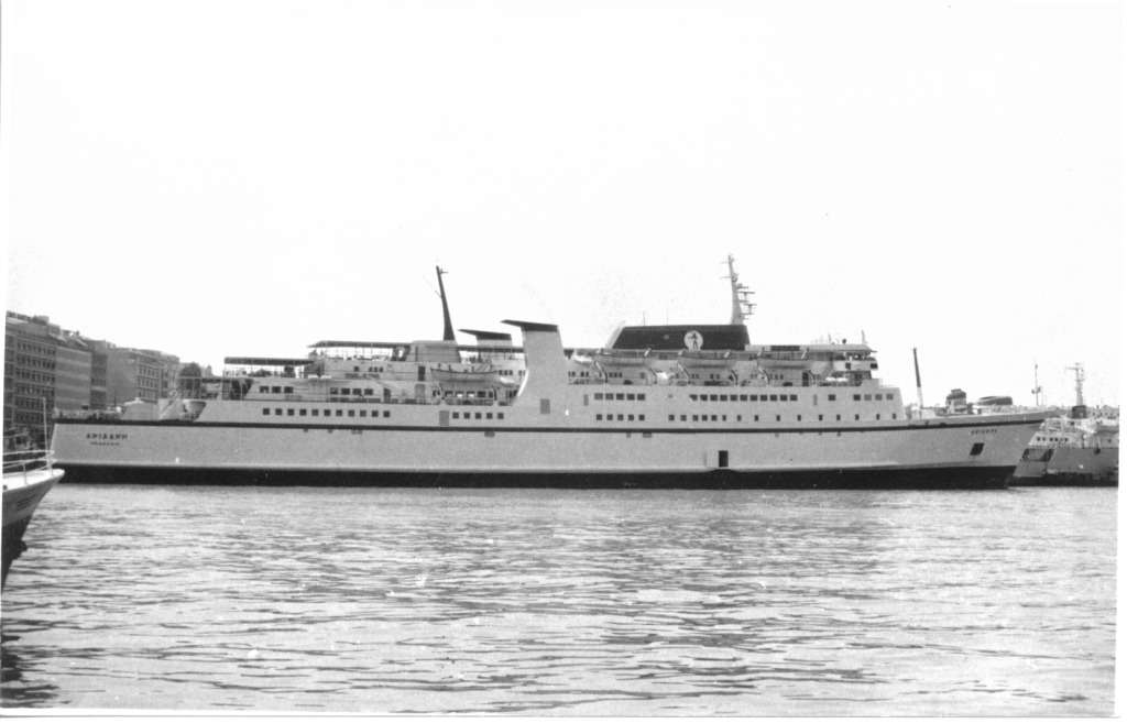 F/B Ariadne of Minoan Lines, IMO:6704402, in Piraeus Harbour, 1984. Today F/B Fashion Diamond, Malta, 9HFI6.